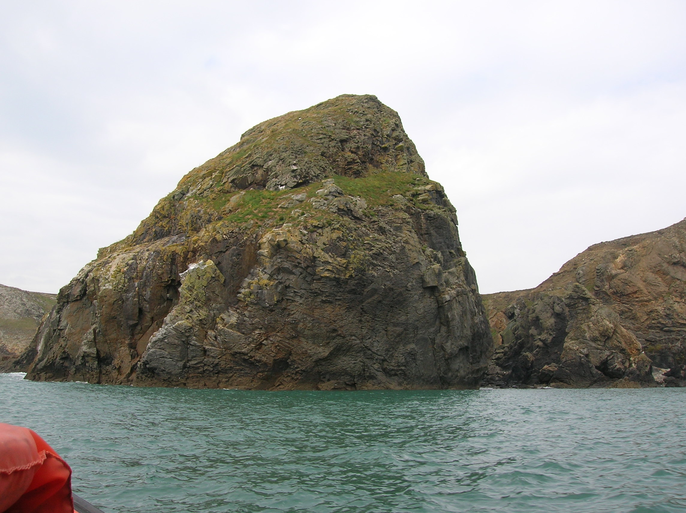 Ynys Gwelltog, which is to the south of Ramsey Island. Photo taken from the sea by Rhys Wynne